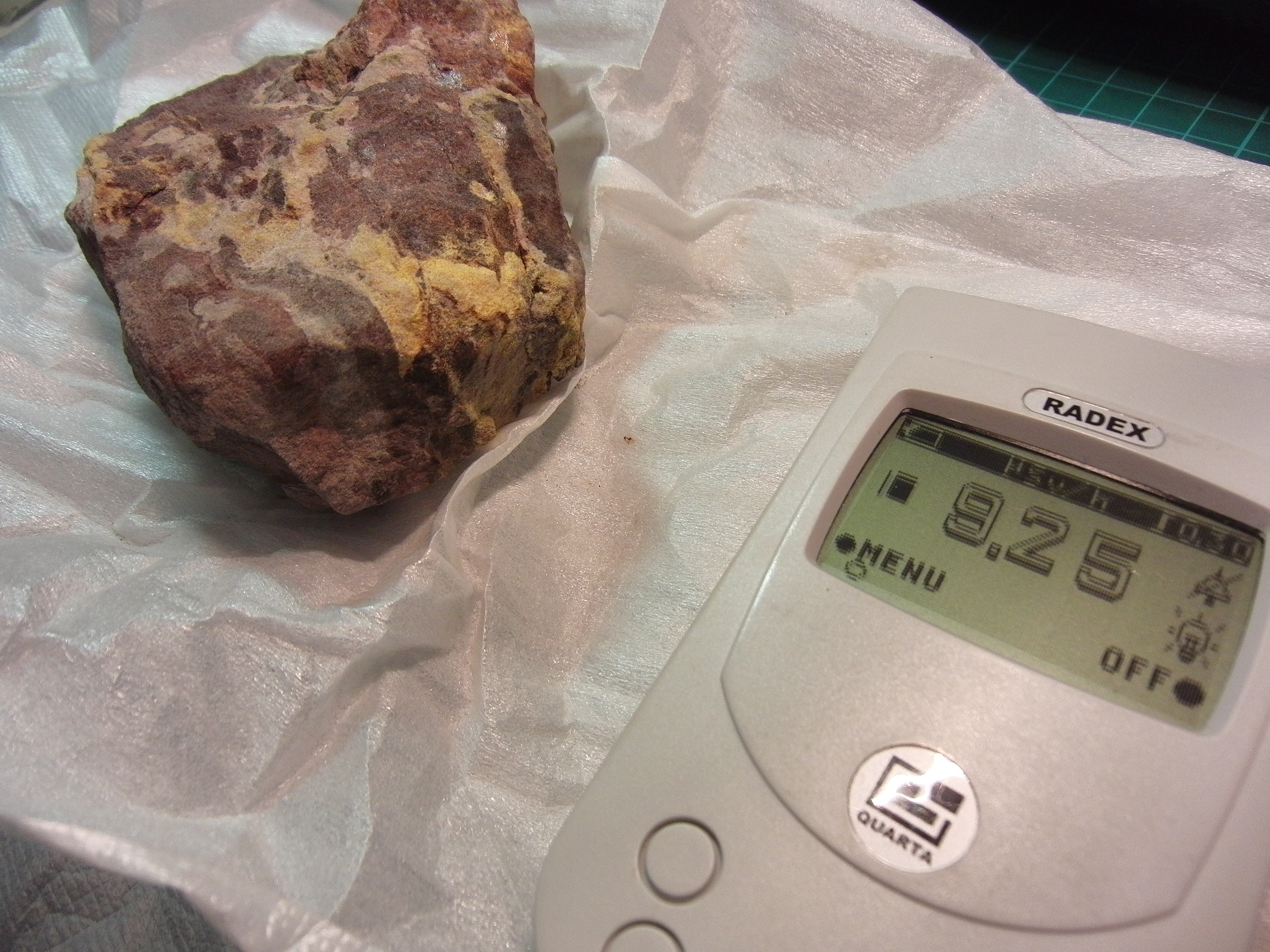 Carnotite with a geiger counter